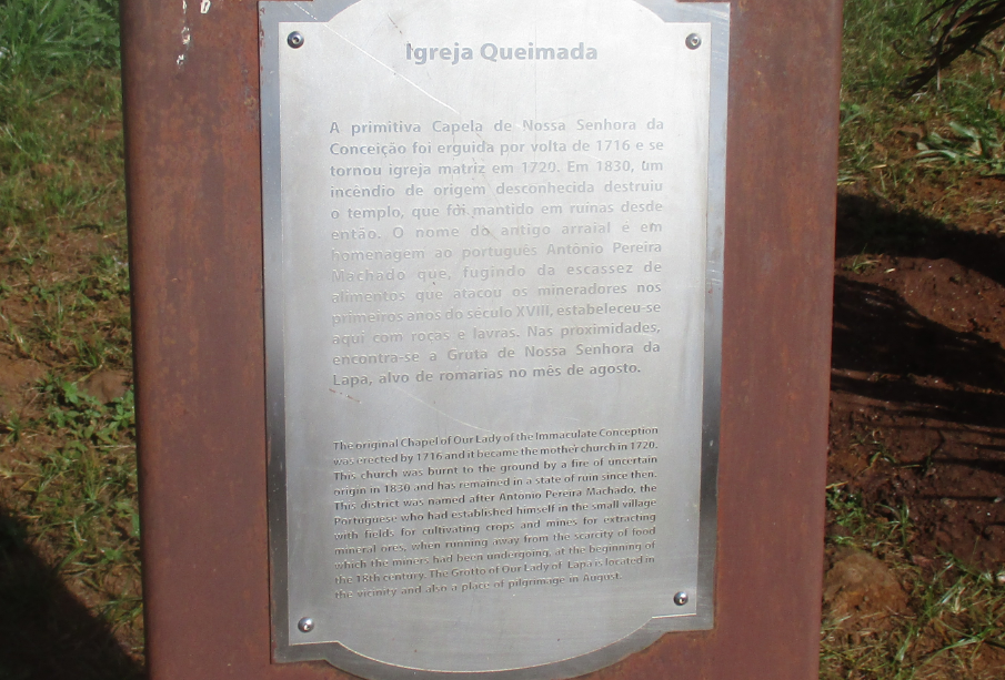 A descriptive plaque located at the entrance of the church destroyed by fire. The board provided a description and the history in brief.